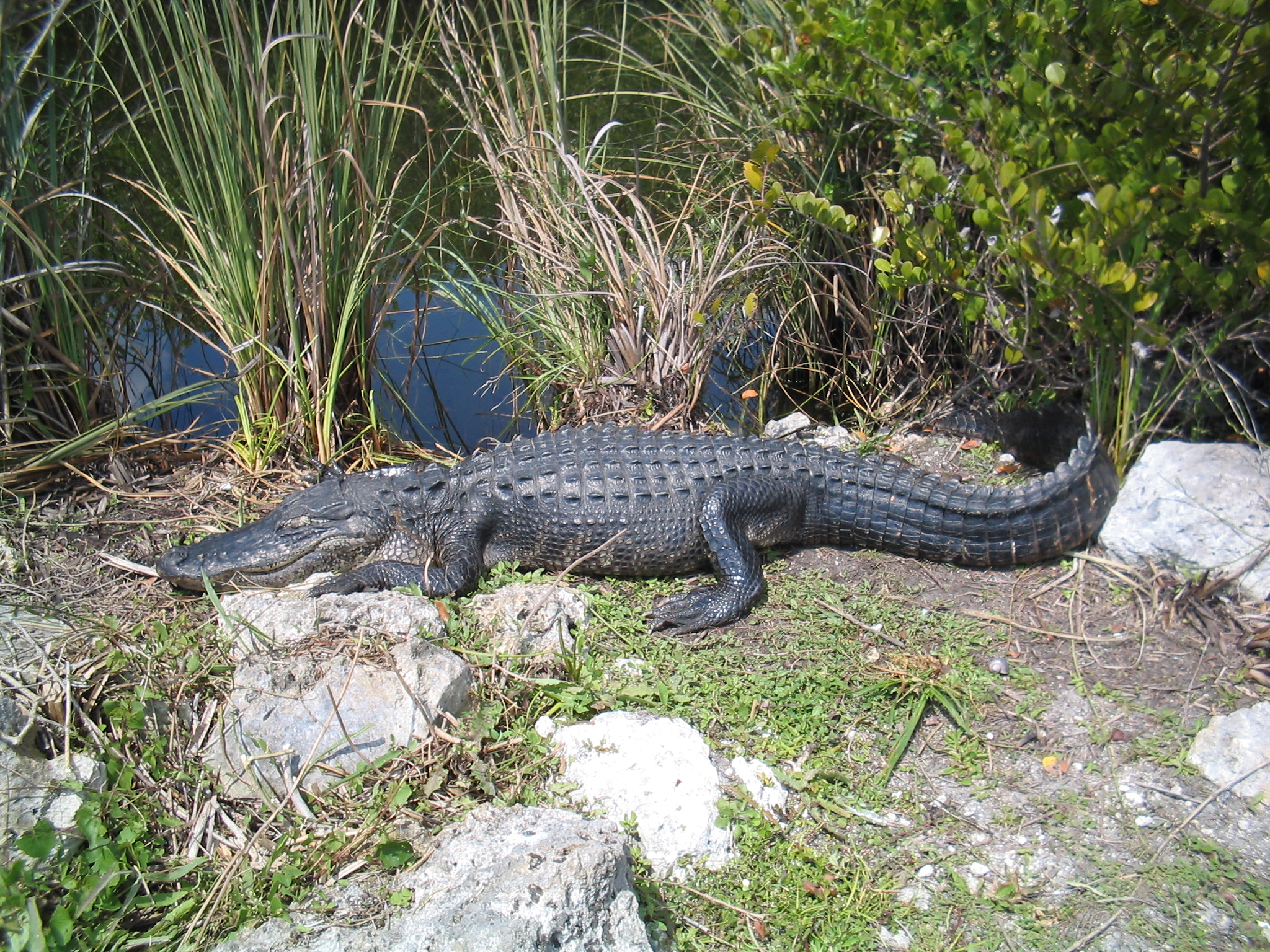 Small American alligator basking near the Shark Valley observation tower in Everglades National Park in South Florida.